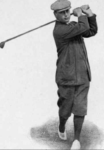 A circa 1915 photograph of professional golfer Fred Herreshoff